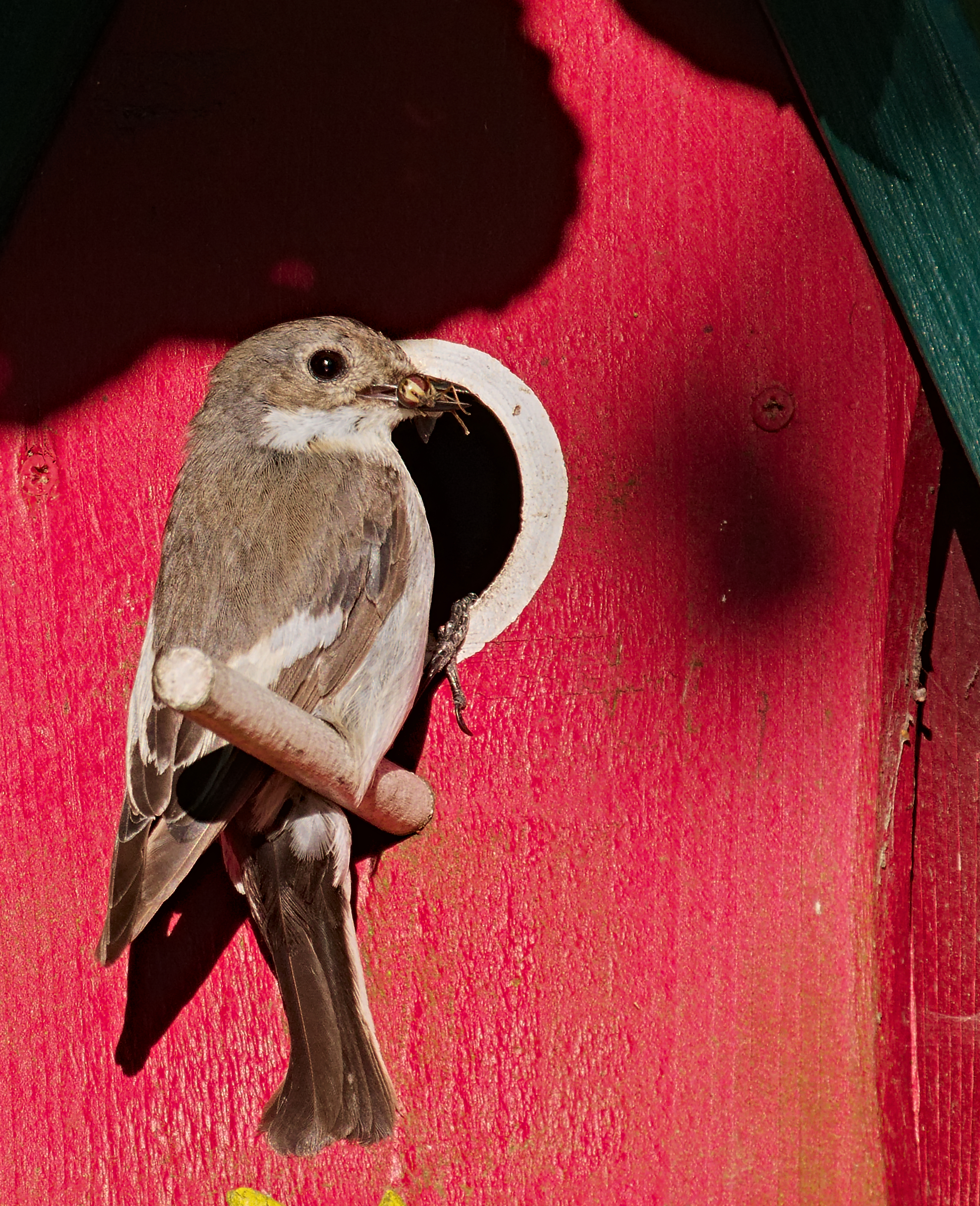 European pied flycatcher - Ficedula hypoleuca, female. Taken in Wendisch Rietz, Brandenburg, Germany.